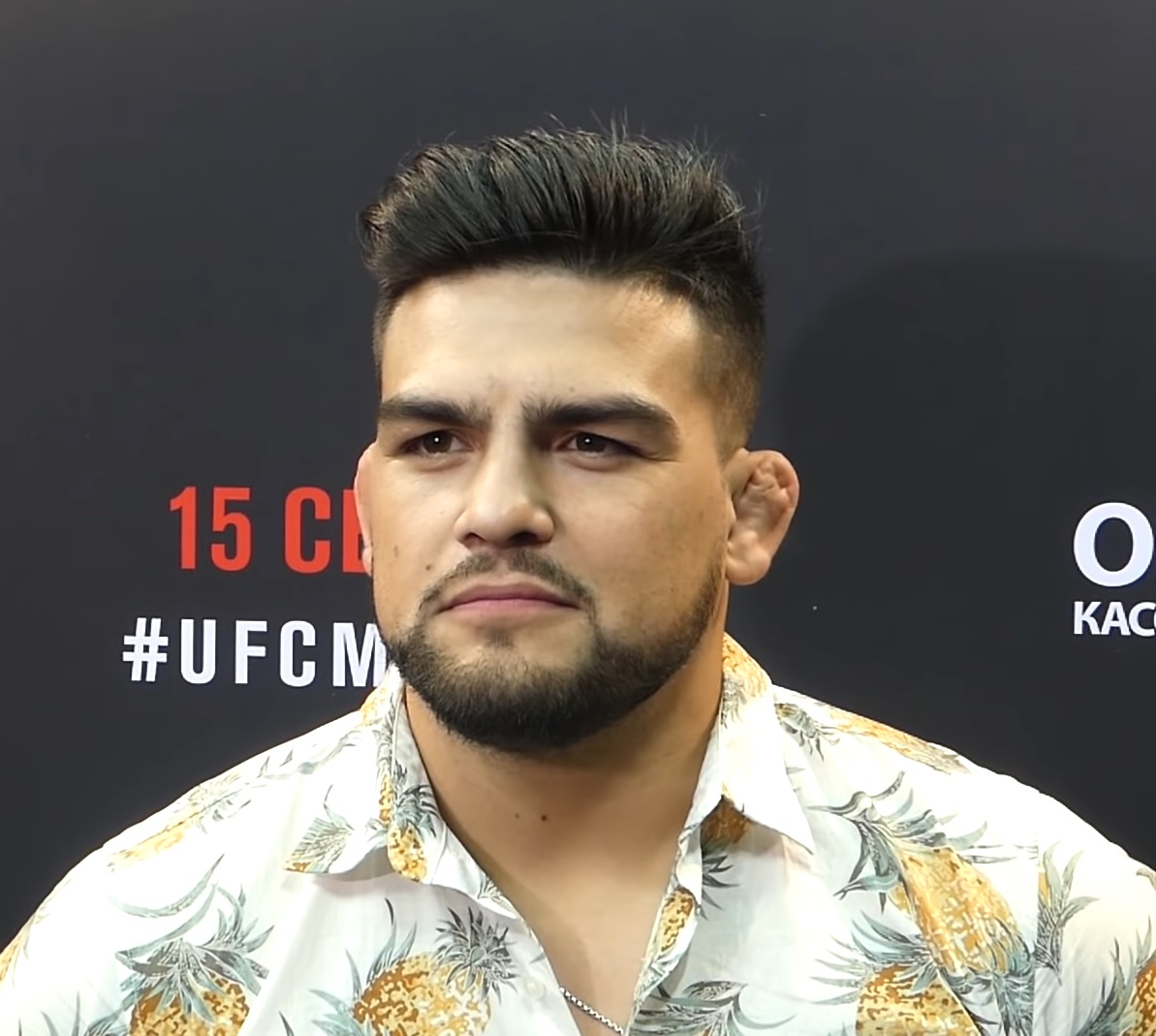 American MMA fighter Kelvin Gastelum.